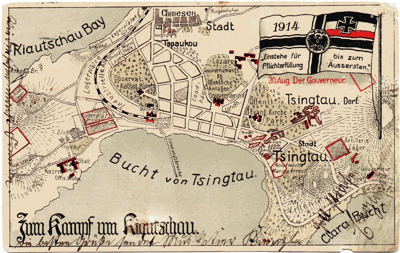 A German postcard, which was printed after 1914, and shows a map of Tsingtao. In fact, this map was adapted from the first city plan of Tsingtao in the year of 1898, and there is an obvious difference between the plan and construction of the city in practice.